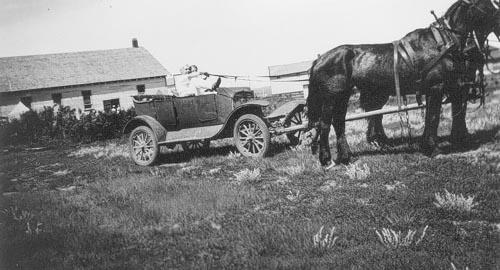 Doctor Bridge and Laura Allyn of Alberta, Canada riding in a "Bennett buggy"—a car with its engine removed, pulled by horses. Popular during the Great Depression, when many Canadians could not afford to buy gas, Bennett buggies are named sardonically for Canadian Prime Minister R. B. Bennett, whose policies failed to pull Canada out of the depression.